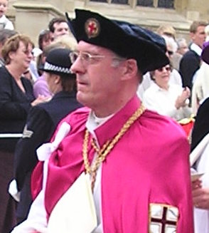 Officers of the Most Noble Order of the Garter, in procession to St George's Chapel, Windsor Castle for the annual service of the Order of the Garter. L-R: Secretary (barely visible), Gentleman Usher of the Black Rod, Garter Principal King of Arms, Register, Prelate, Chancellor